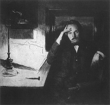 Engraved selfportrait